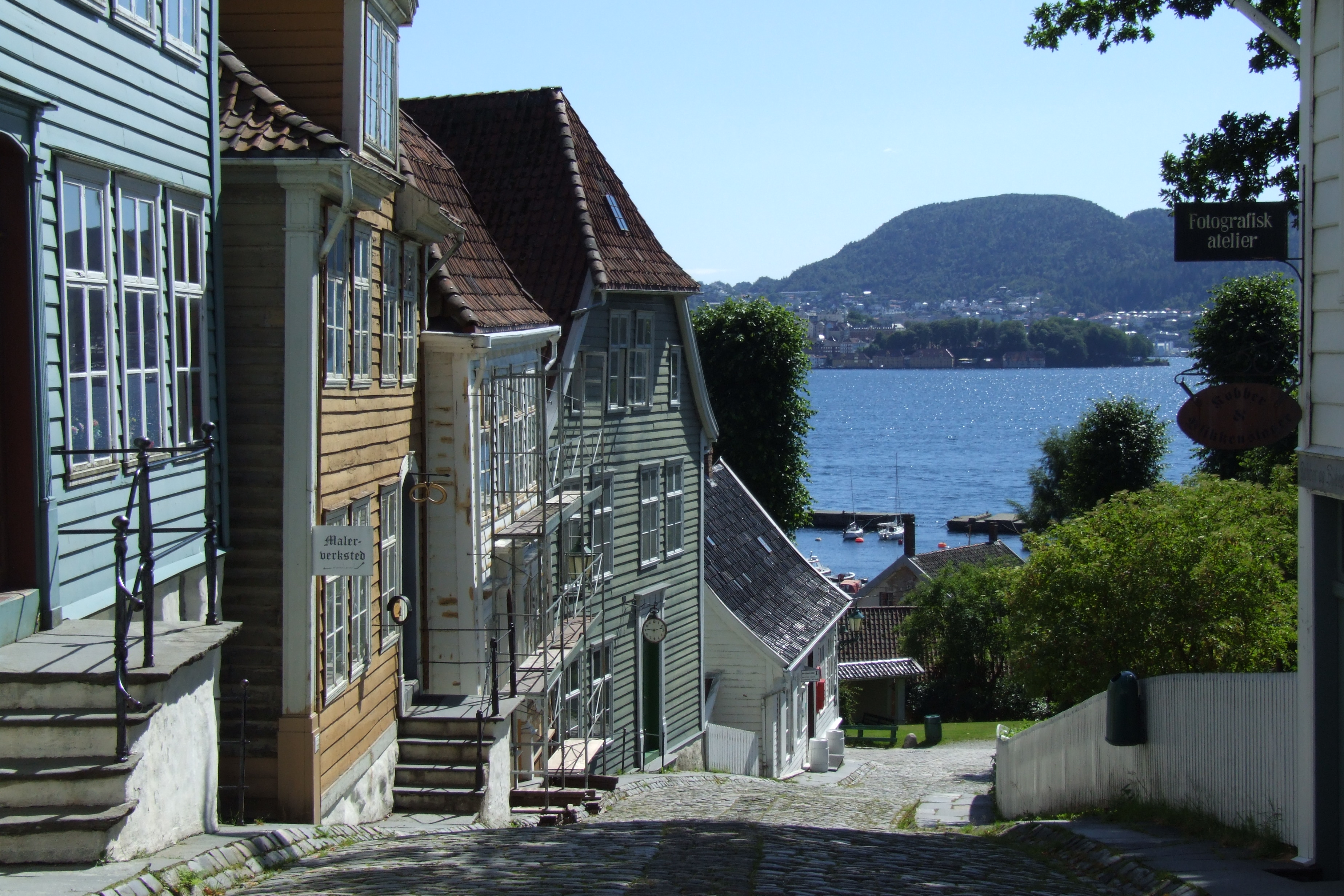 Houses in Gamle Bergen (Old Bergen) - open air museum in Bergen, Norway